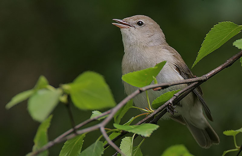 Image taken at Cullaloe, Fife